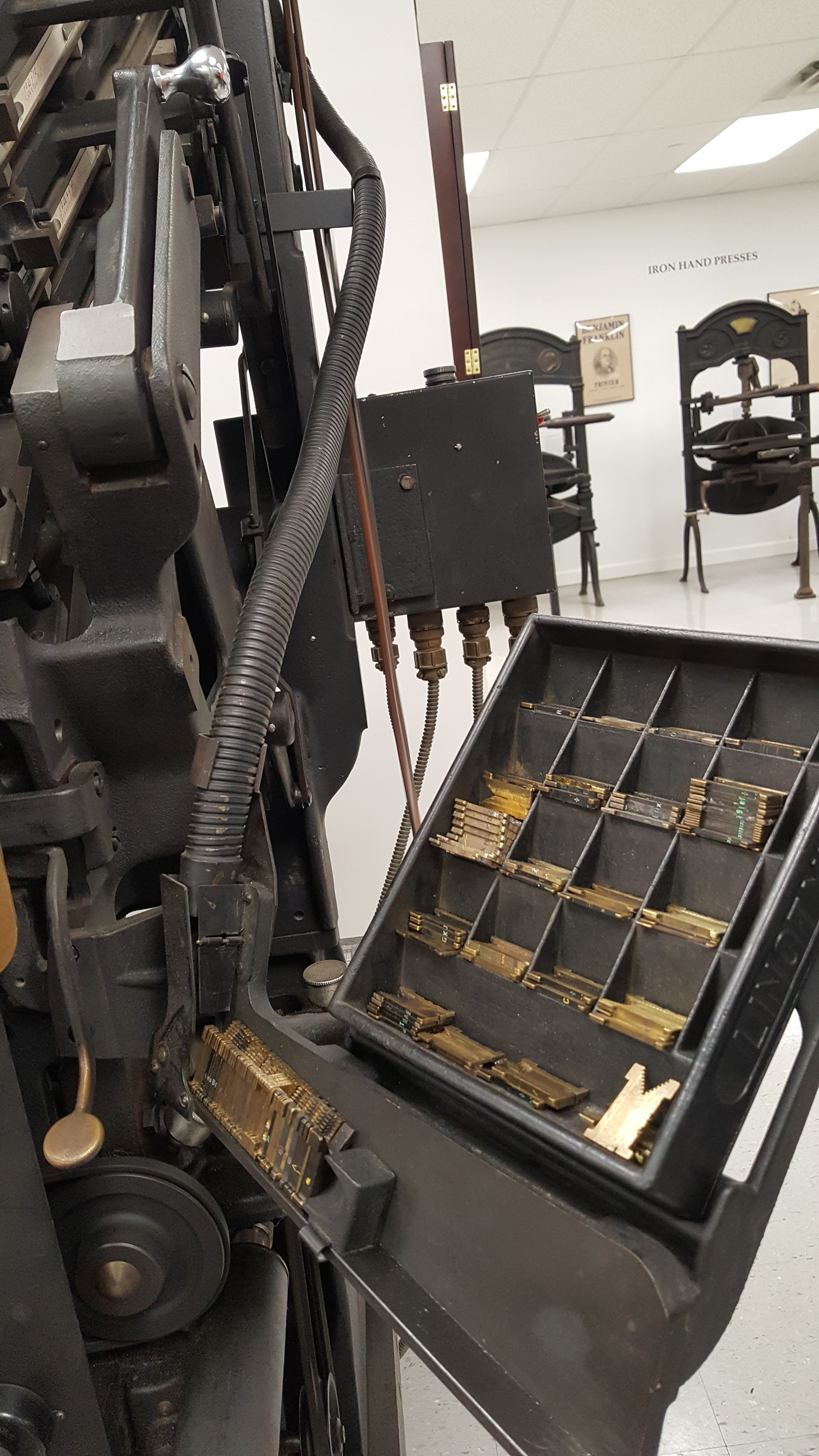 linotype model 8; pi chute, sort stacker, and wooden box holding matrixes